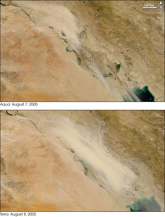 A shamal overspreading Iraq. NASA Earth Observatory